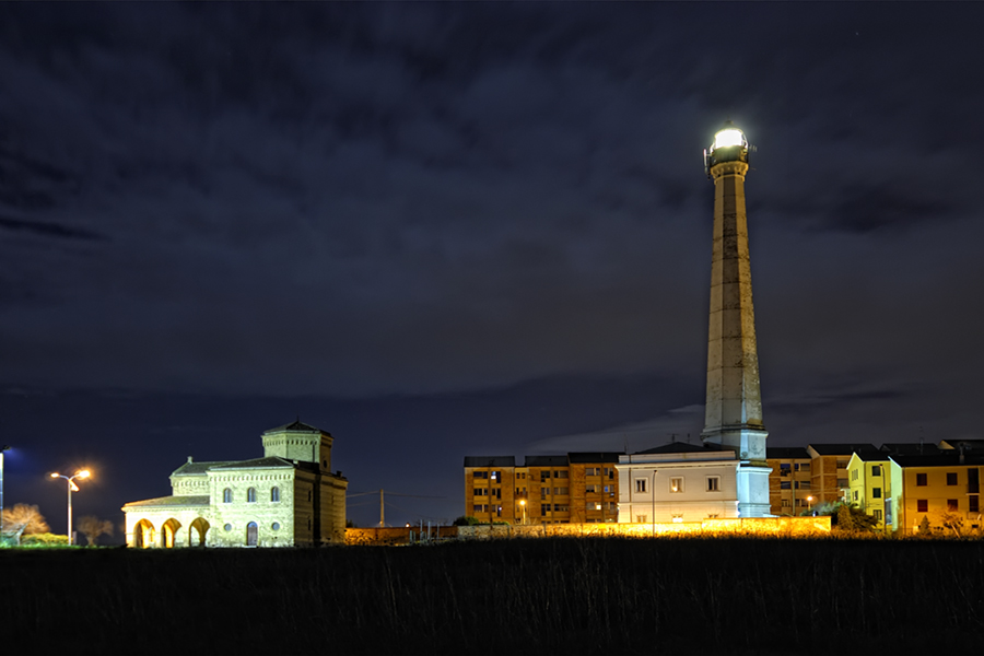 Punta Penna Lighthouse, Vasto, Chieti, Abruzo, Italy.